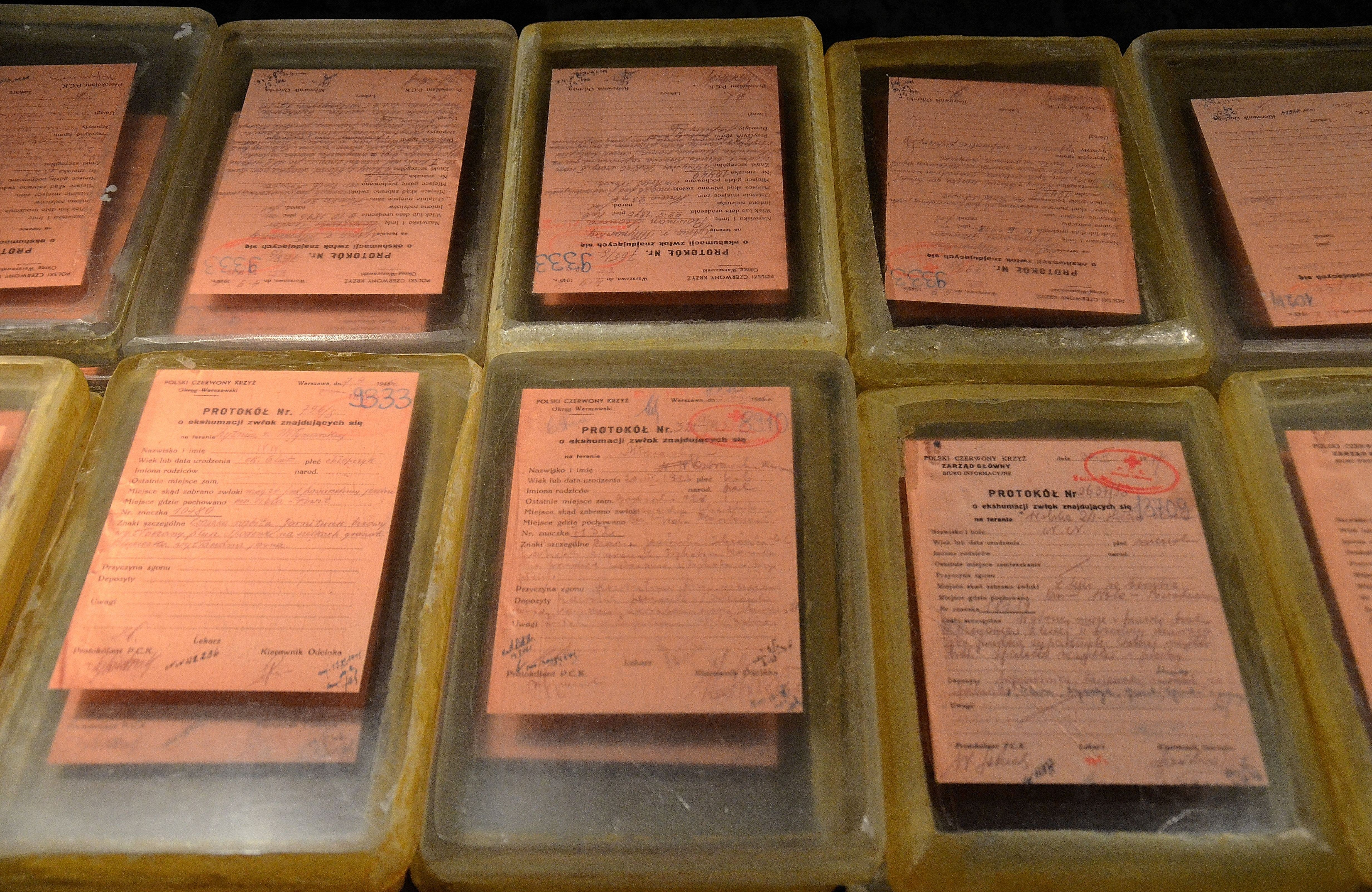 Polish Red Cross post-war protocoles on the exhumation of the victims of the civilian massacre in Wola in the Warsaw Uprising Museum